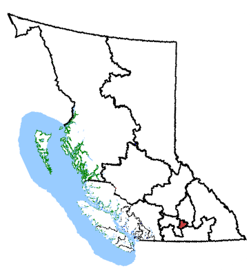 Map of Kelowna—Lake Country, British Columbia